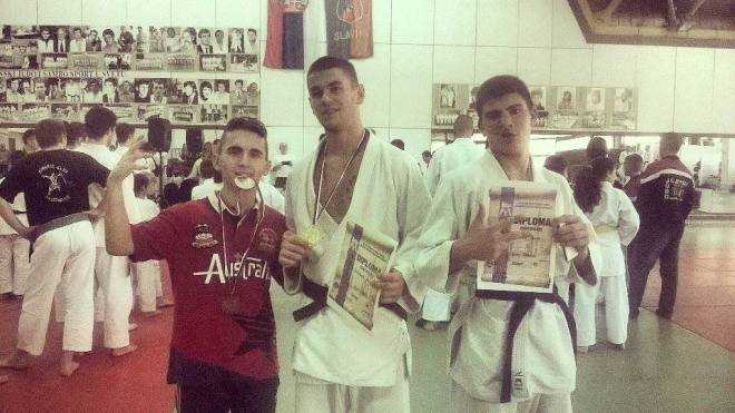 Photo